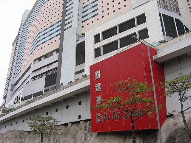 Po Tat Estate, Sau Mau Ping